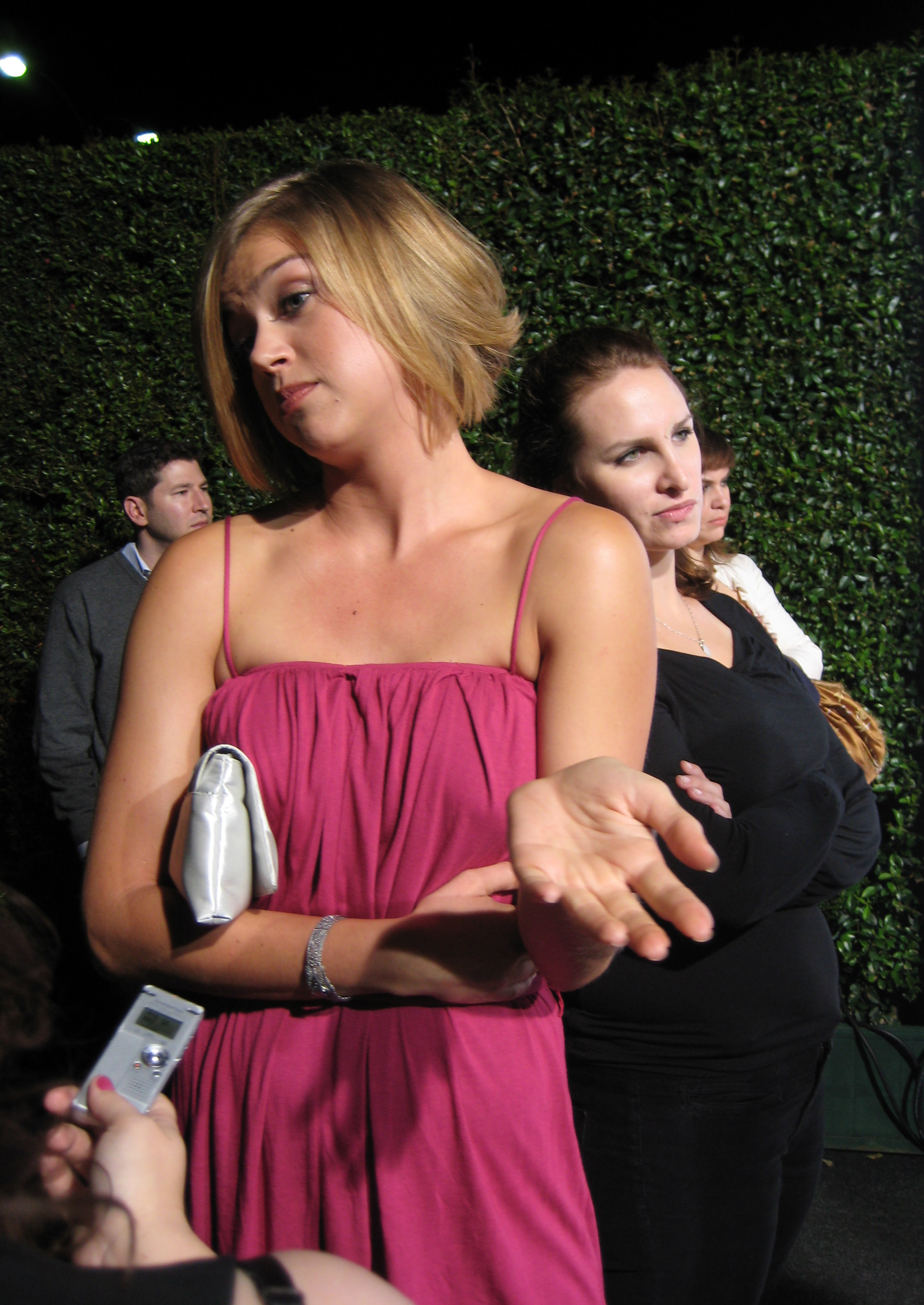 Adrienne Palicki - Entertainment Weekly/Revlon Party, Beverly Hills Post Office, Sept. 20, 2008